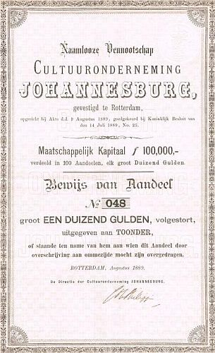 stock of Cultuurmaatschappij Johannesburg, Suriname founded in 1889